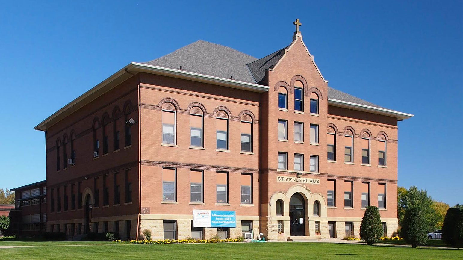 St Wenceslaus Catholic School, 227 Main St E, New Prague, Minnesota, USA. Viewed from the southwest.